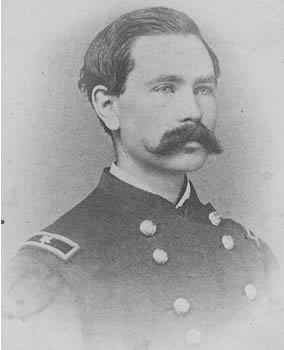 Brevet Brigadier General Delevan Bates (1840-1918)